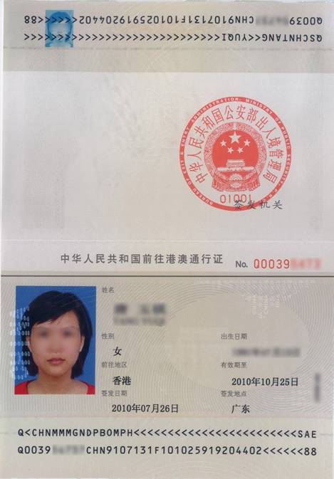 Sample of People's Republic of China Permit for Proceeding to Hong Kong and Macao